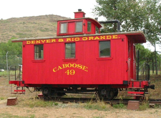 A "Bobber" 4-wheel caboose of the Denver & Rio Grande Railroad preserved at the Colorado Railroad Museum, Golden, Colorado.